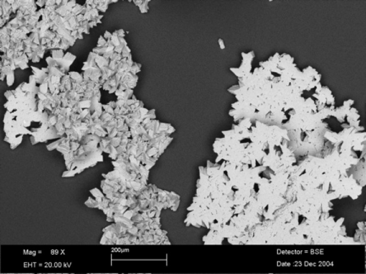 SEM photo showing calcite rafts